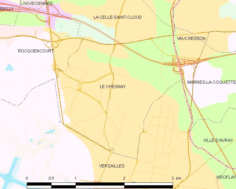 Map of French municipality Le Chesnay